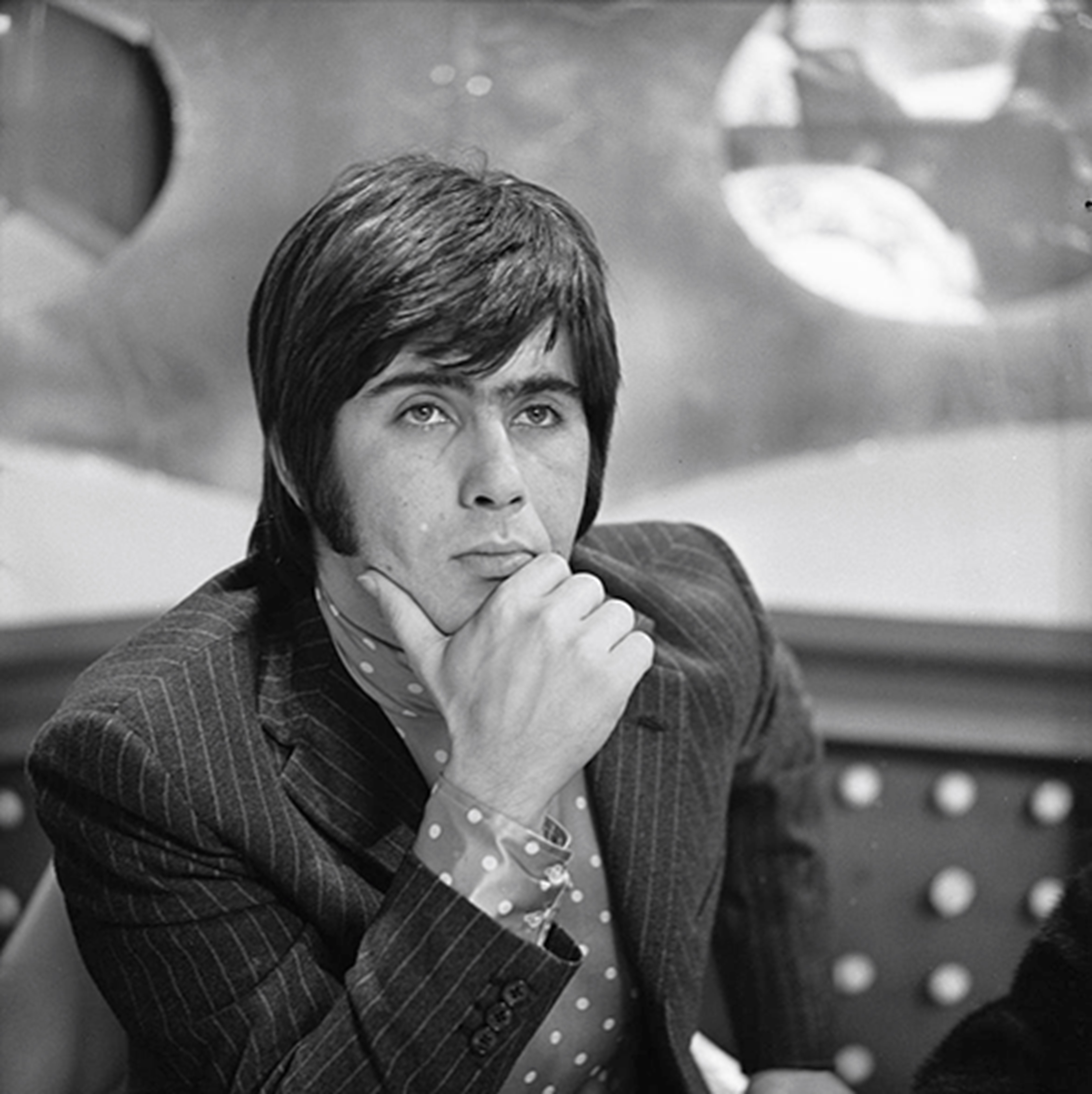 Abi Ofarim at Dutch TV programme Fenklup, 8 March 1968